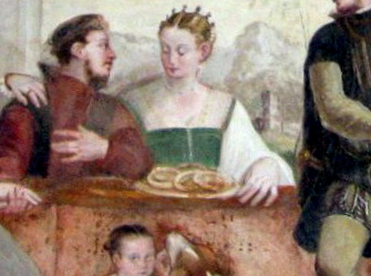 detail with bussolà (typical cakes of Vicenza)